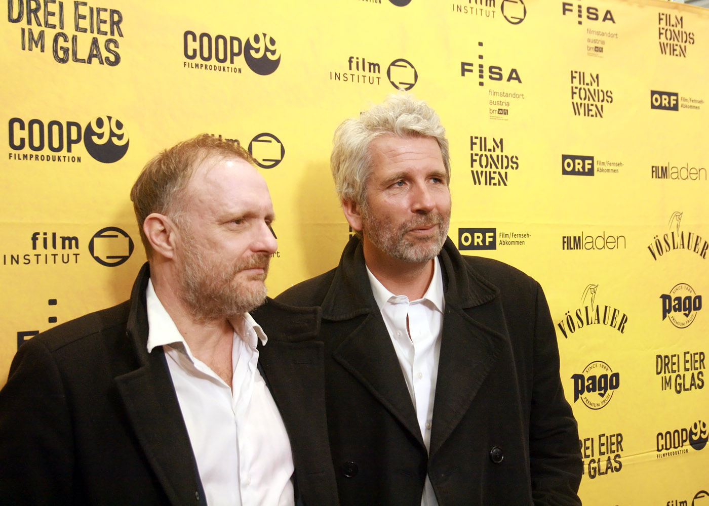 Christoph Grissemann and Dirk Stermann at the premiere of Drei Eier im Glas at Gartenbaukino in Vienna, Austria.